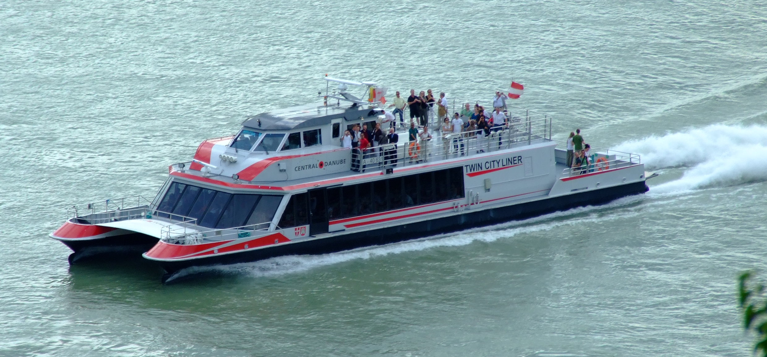 Twin city liner express ship on Danube near Devin, Bratislava, SKhelp